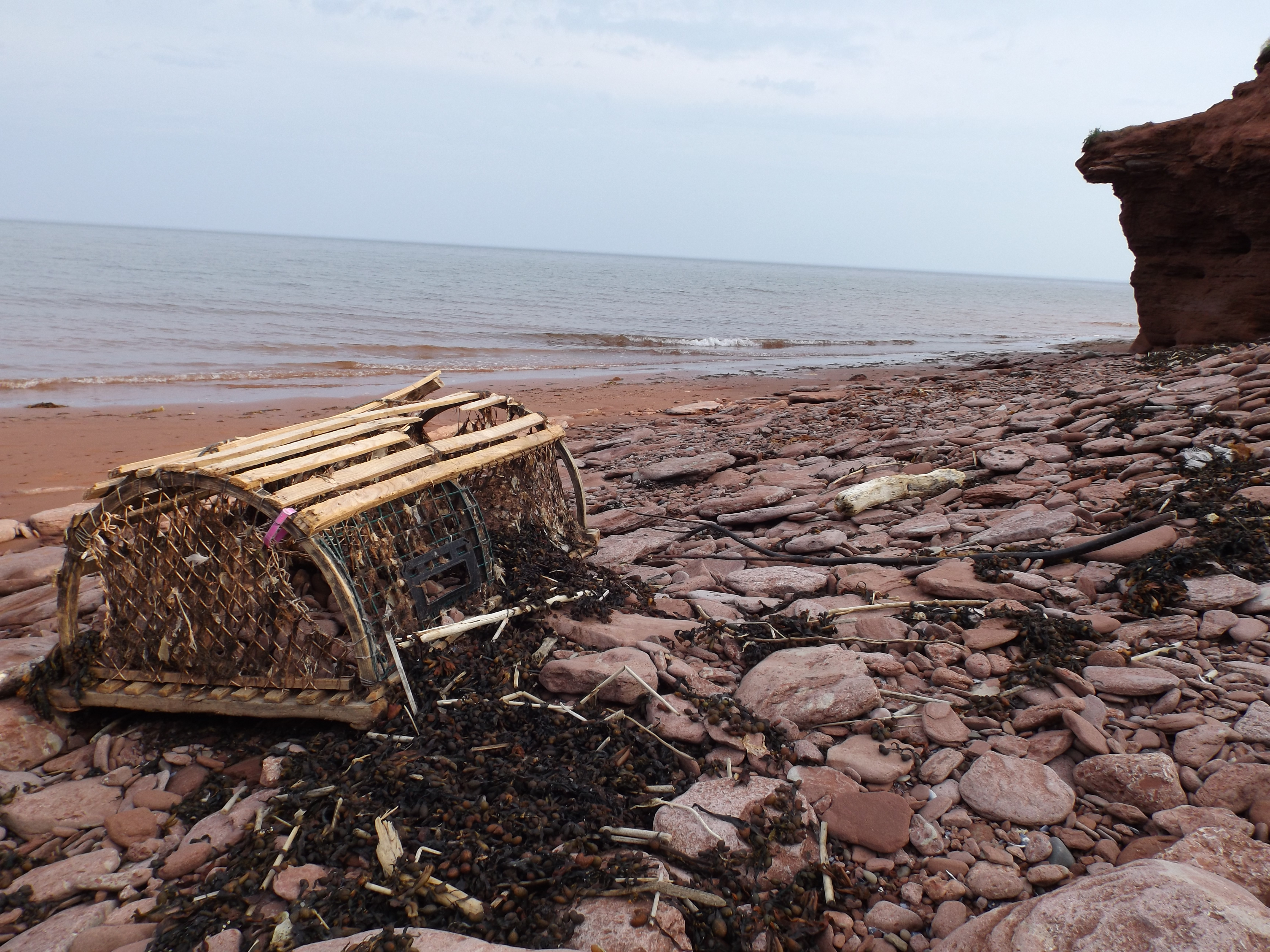 Lobster trap